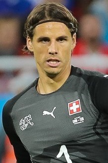 Yann Sommer